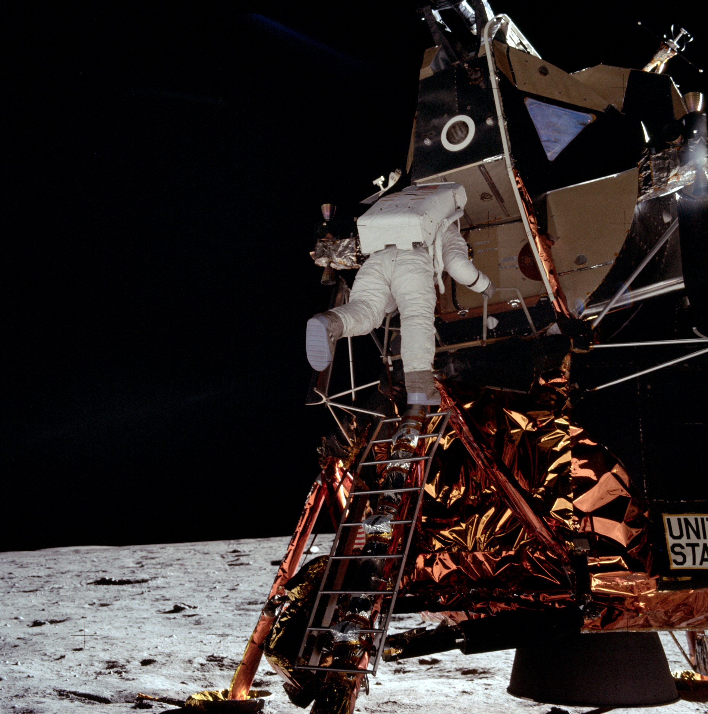 Apollo 11 astronaut Edwin E. Aldrin, Jr. leaves the Lunar Module Eagle to take his first steps as the second man on the moon. (mission time: 109:41:56)